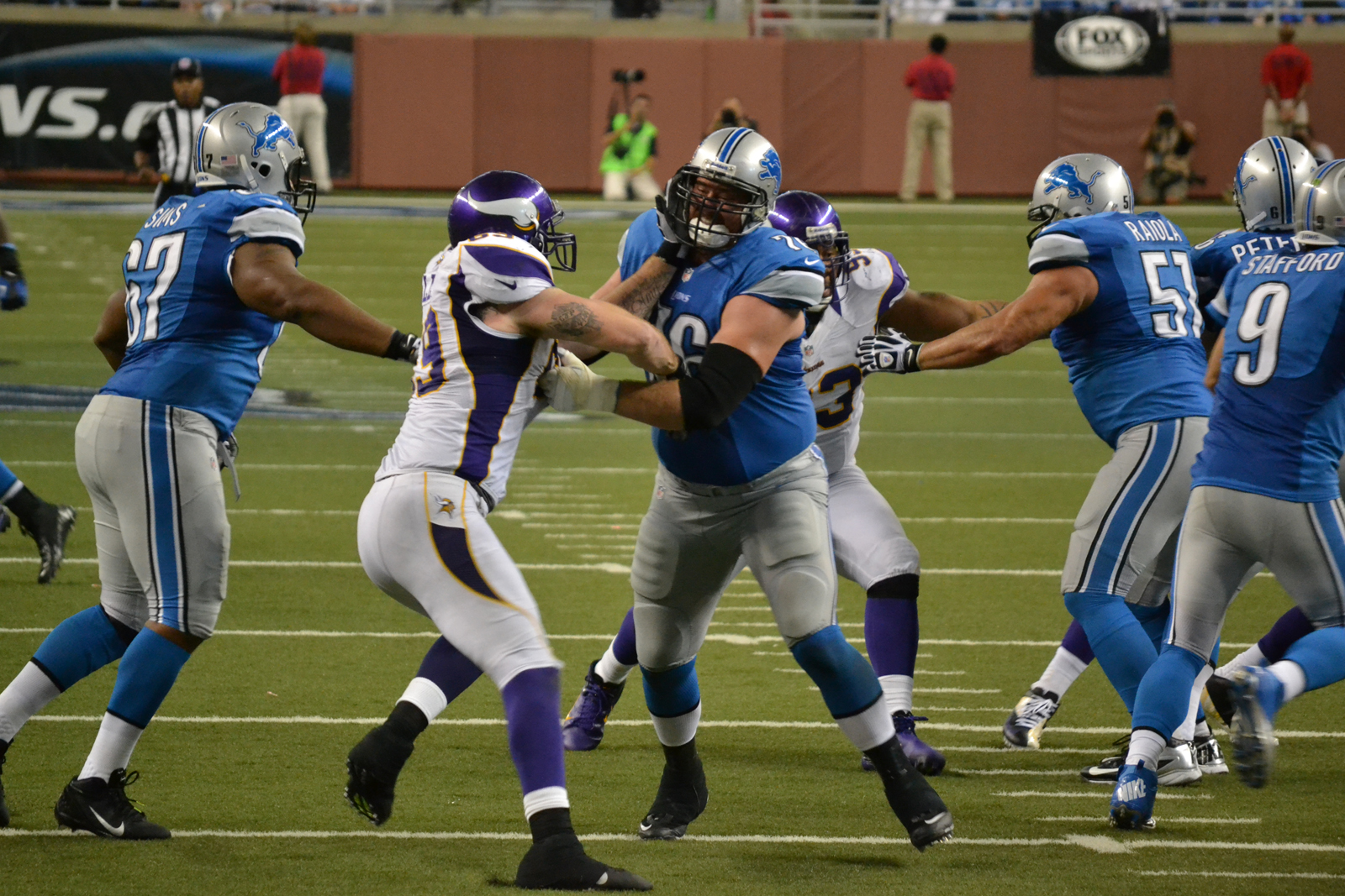 Game action during the football game between the Detroit Lions and Minnesota Vikings at Ford Field